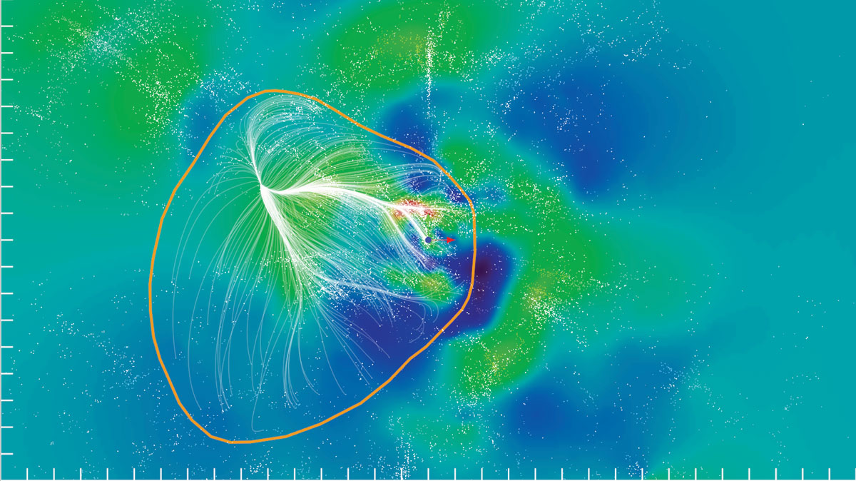 Laniakea Supercluster of galaxies contains thousands of galaxies that includes our Milky Way Galaxy, the Local Group of galaxies, and the entire nearby Virgo Cluster of Galaxies. The colossal supercluster is shown in the above computer-generated visualization, where green areas are rich with white-dot galaxies and white lines indicate motion towards the supercluster center. An outline of Laniakea is given in orange, while the blue dot shows our location. Outside the orange line, galaxies flow into other galactic concentrations. The Laniakea Supercluster spans about 500 million light years and contains about 100,000 times the mass of our Milky Way Galaxy. The discoverers of Laniakea gave it a name that means "immense heaven" in Hawaiian.